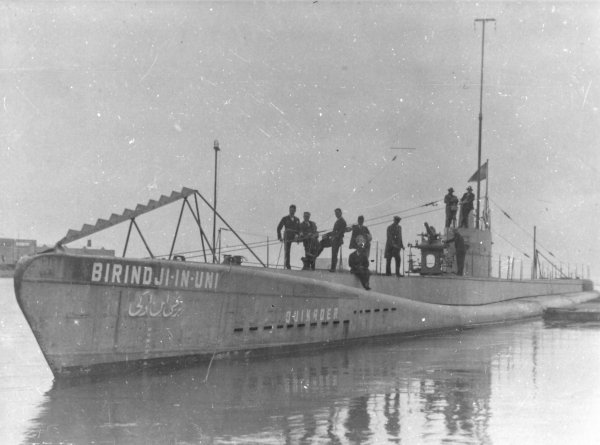 Turkish submarine Birindji-In-Uni (modern Turkish: Birinci İnönü)